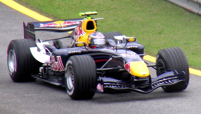 Formula One 2006 Rd.18 Interlagos: #37 Michael Ammermüller (Red Bull Racing)